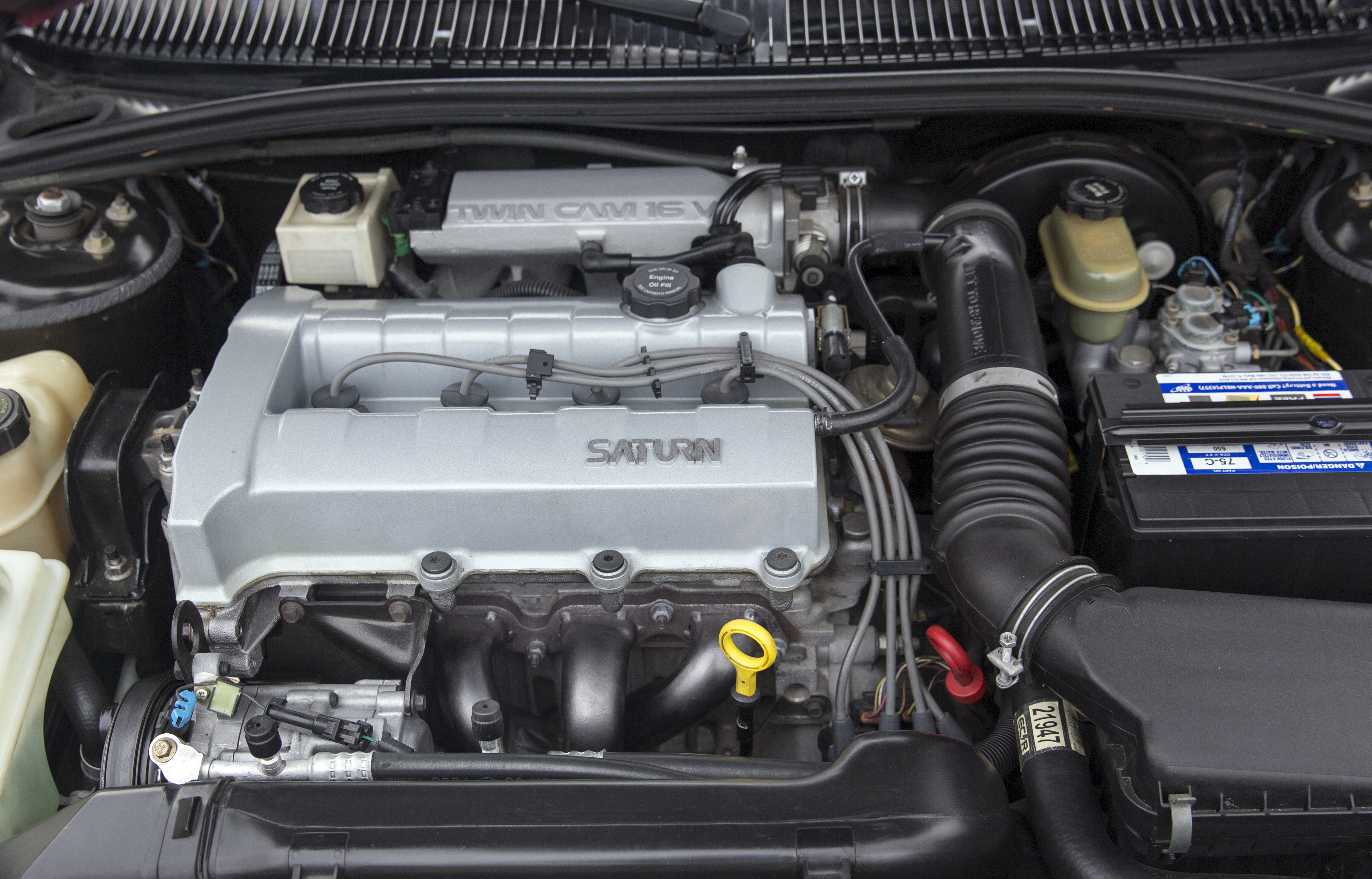 The 1.9-liter Twin Cam egnine in a 1992 Saturn SC2 in the show area at Hershey 2019. 25,000 miles, Bright Red with Black leather interior and an automatic. Near concours condition.